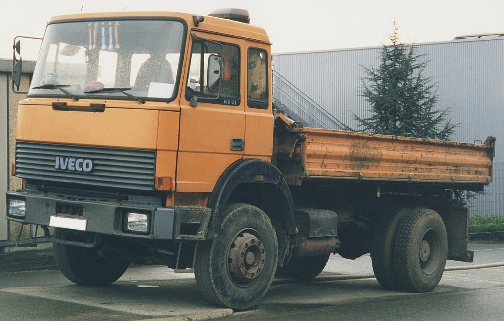 Iveco 160-23 Turbo.